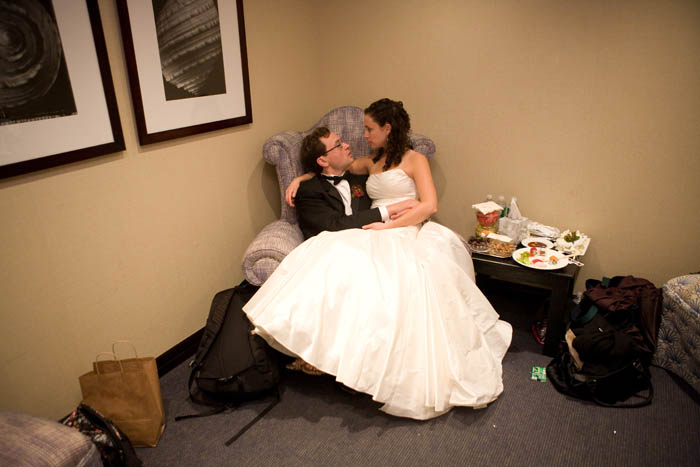 A Jewish couple in yichud at their wedding.